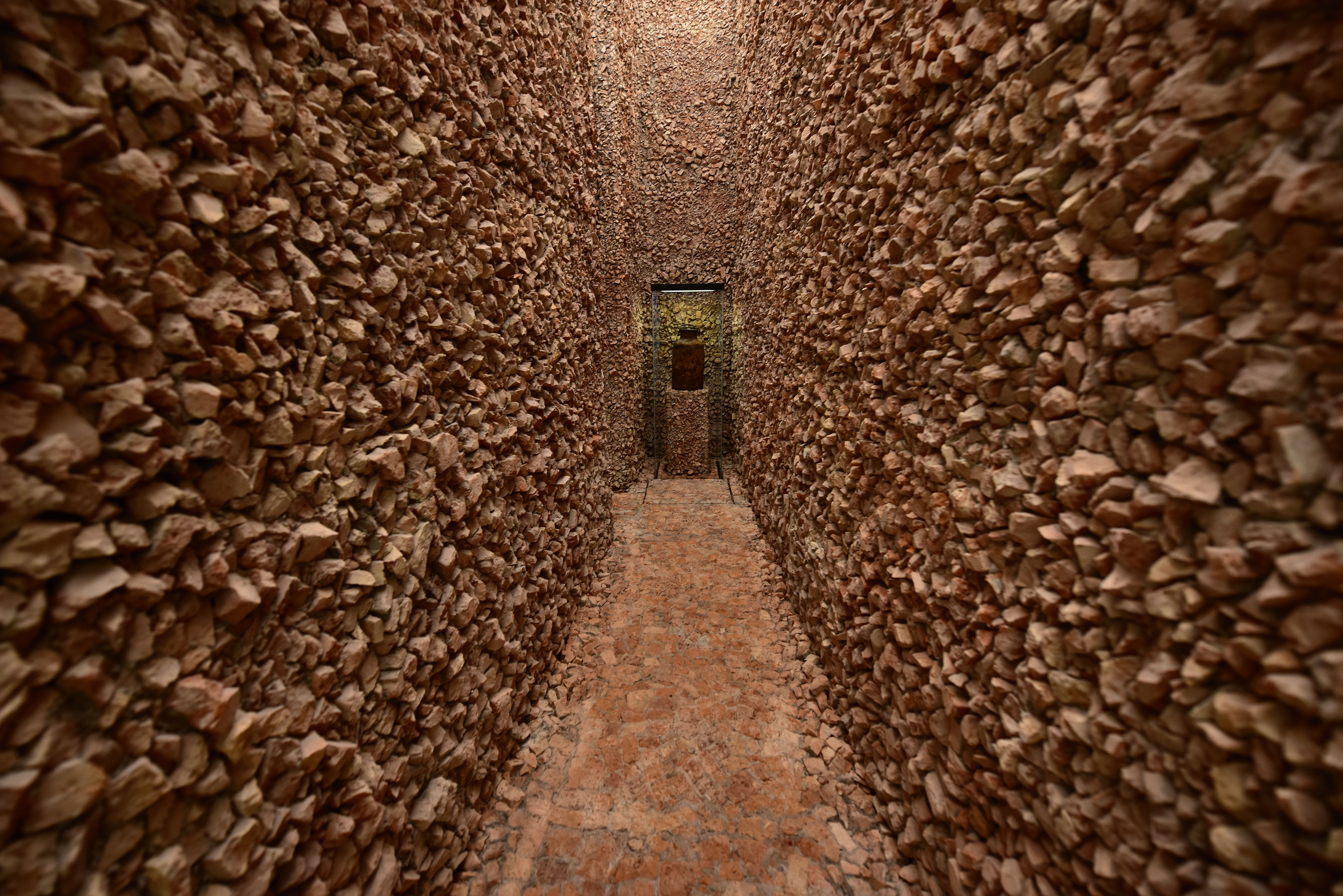 Part of the permanent exhibition What we were unable to shout out to the world at the Emanuel Ringelblum Jewish Historical Institute in Warsaw